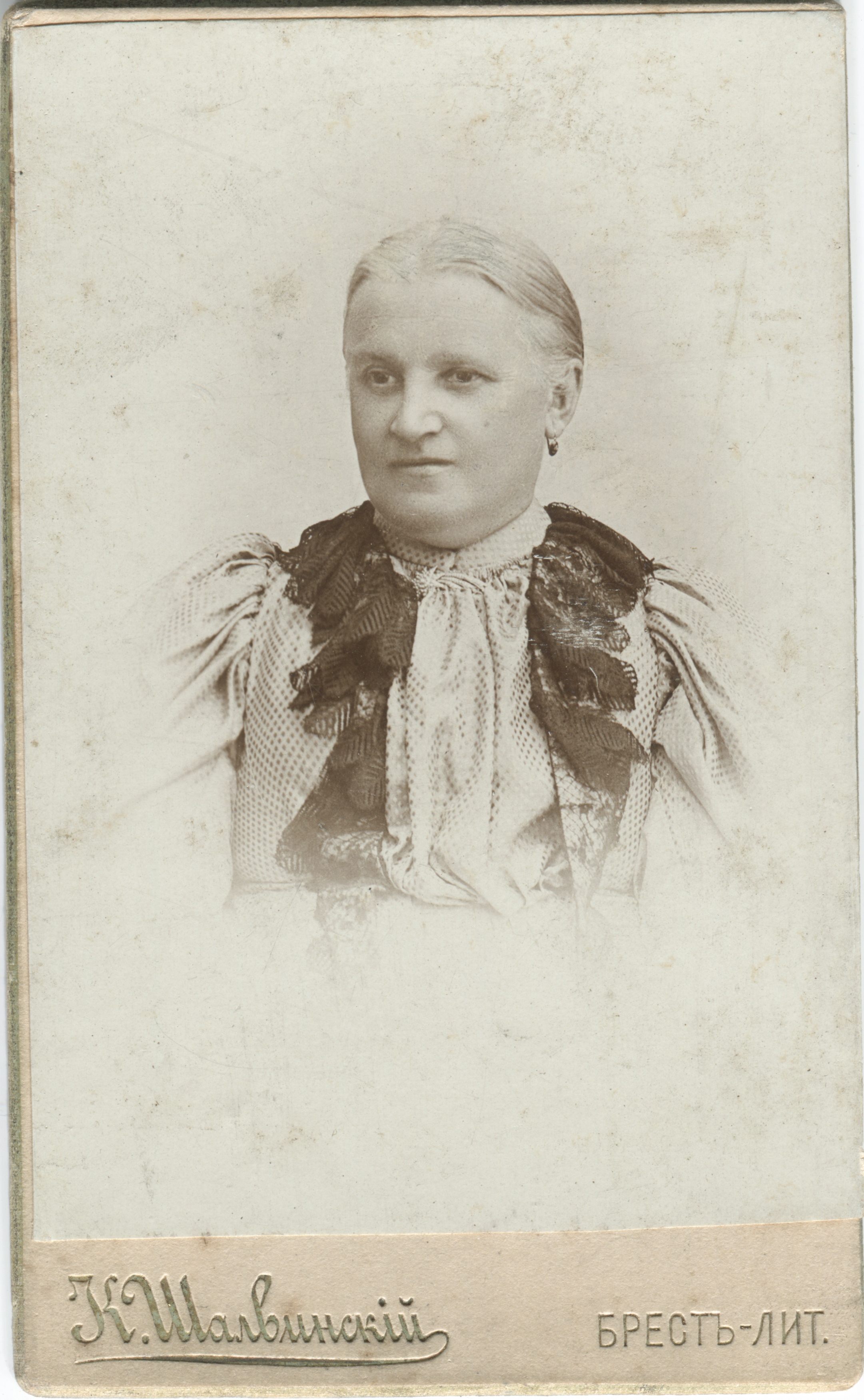 Portrait of Tekla Marcjanna Szałwiński born Puchalski (1842-1910), made between 1887 and 1890 year in Brześć by Karol Szałwiński (1869-1906). Photograph came from collection of Danuta Anna Krełowska.